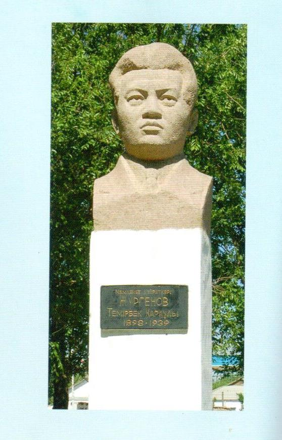 Темірбек Жүргенов ескерткіші